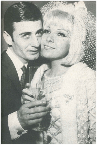 Maria Vincent weds French couturier Leo Marciano